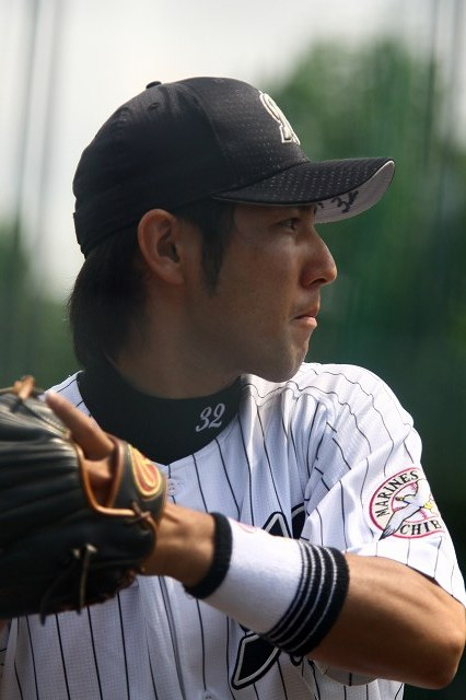 Shunichi Nemoto, infielder of the Chiba Lotte Marines.